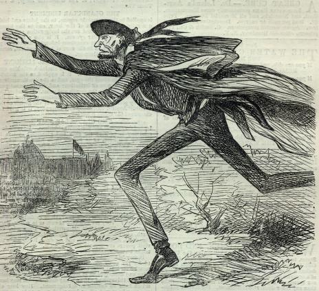 Abe Lincoln_running cartoon Harpers